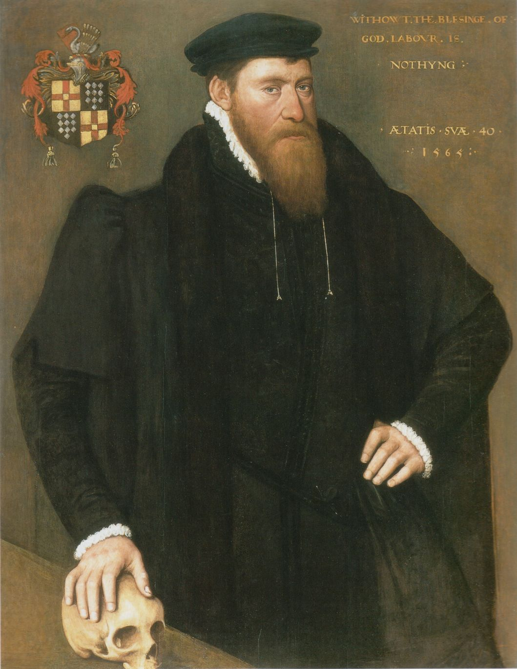 Portrait of John Lonyson, Master of the Mint of England 1571–1582.